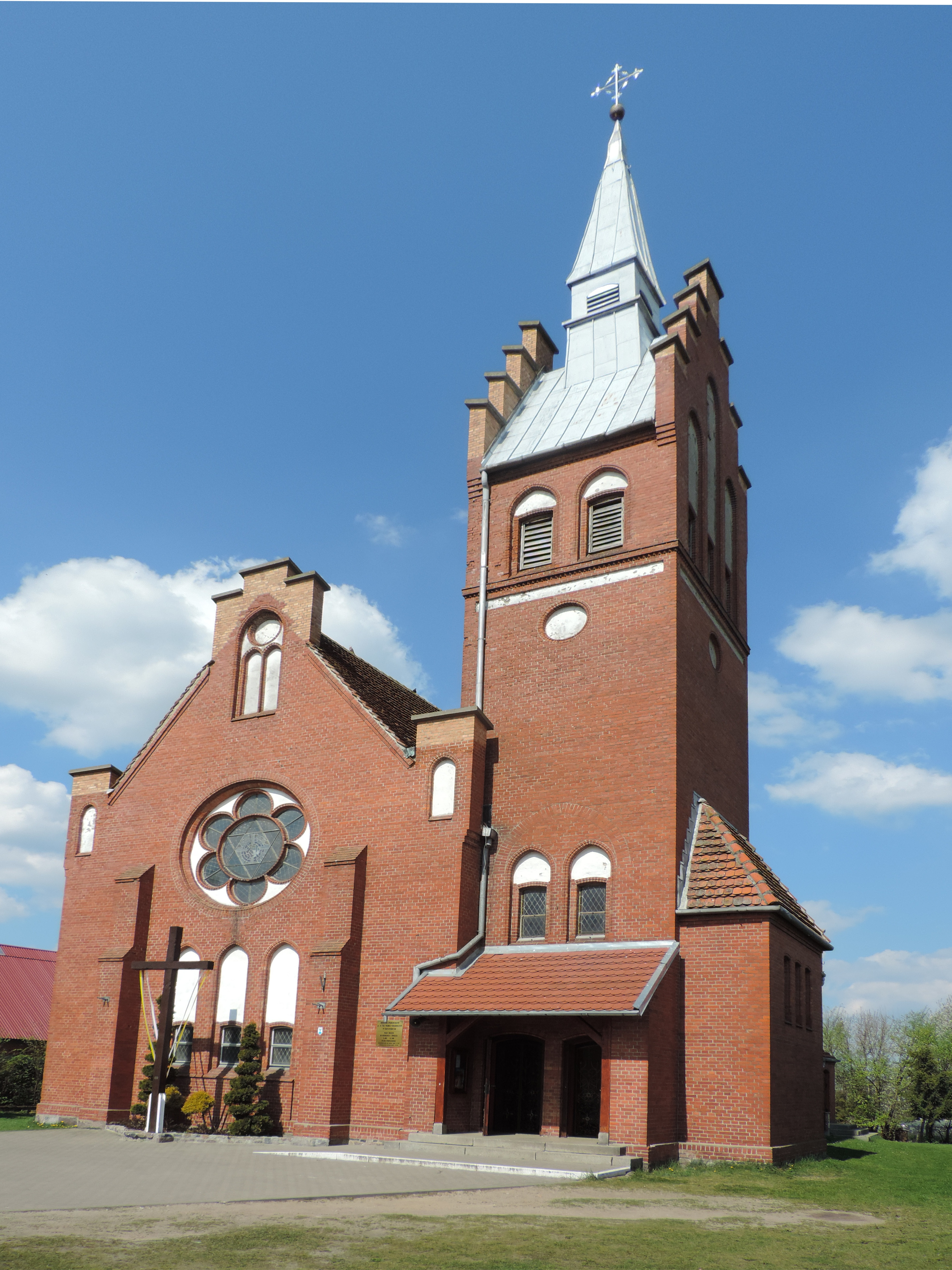 Mary Magdalene church in Garczegorze